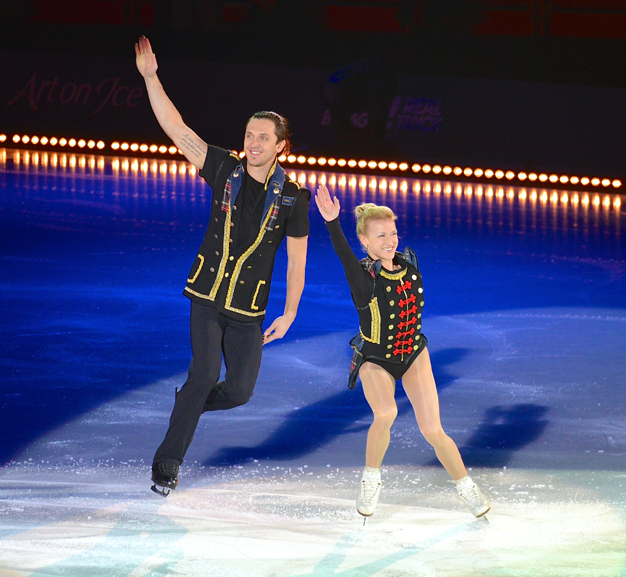 "Art on Ice" at the Globe Arena in Stockholm, March 13, 2014.